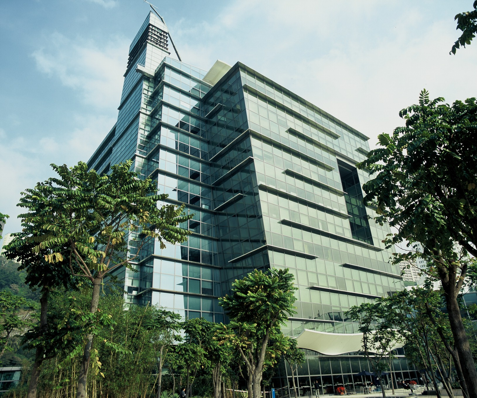 Hong Kong